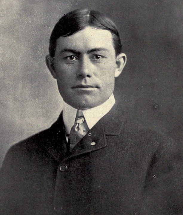 Photograph of Fielding H. Yost